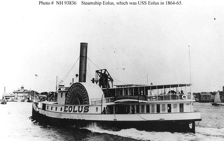 Underway during the later 1800s. Built in 1864, this steamship served as USS Eolus in 1864-1865.